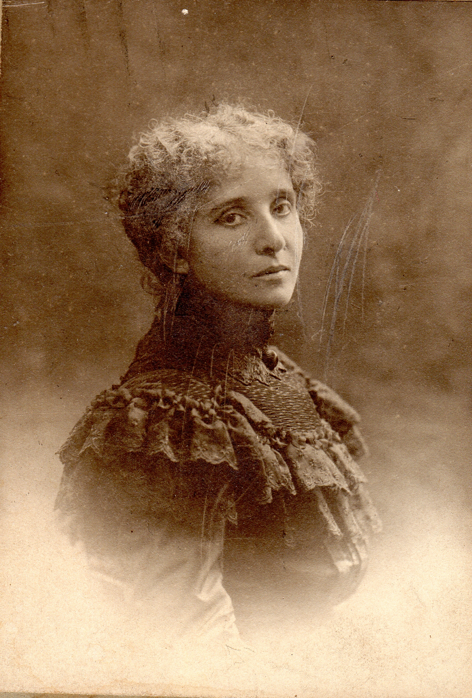 Mélanie Hélène "Mel" Bonis (1858-1937), French composer, about age 40